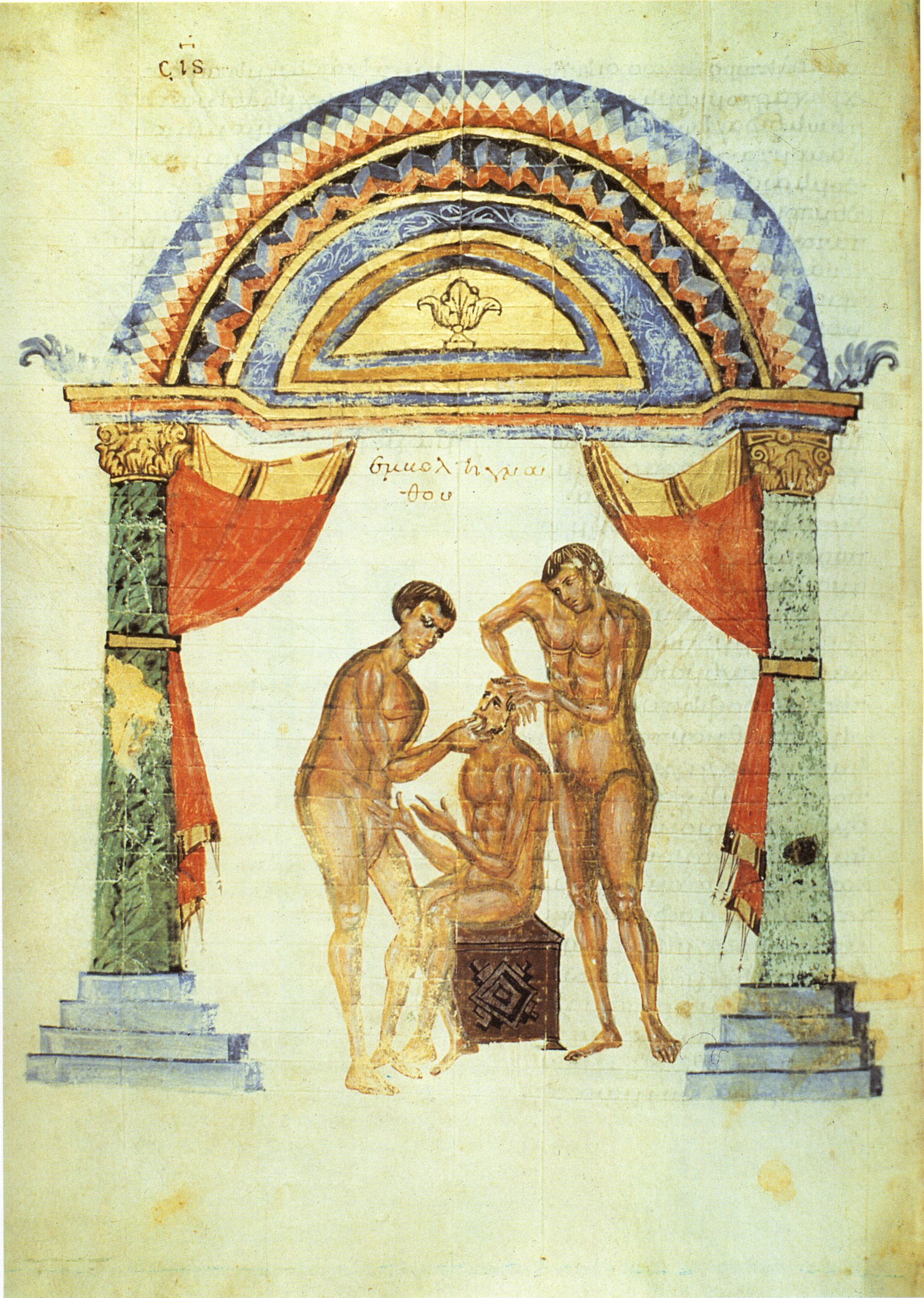 Apollonios of Kition, De articulis. Illumination based on the model of a drawing in an ancient book showing the resetting of an underjaw. Florence, Biblioteca Medicea Laurenziana, Plut. 74,7, fol. 198v.